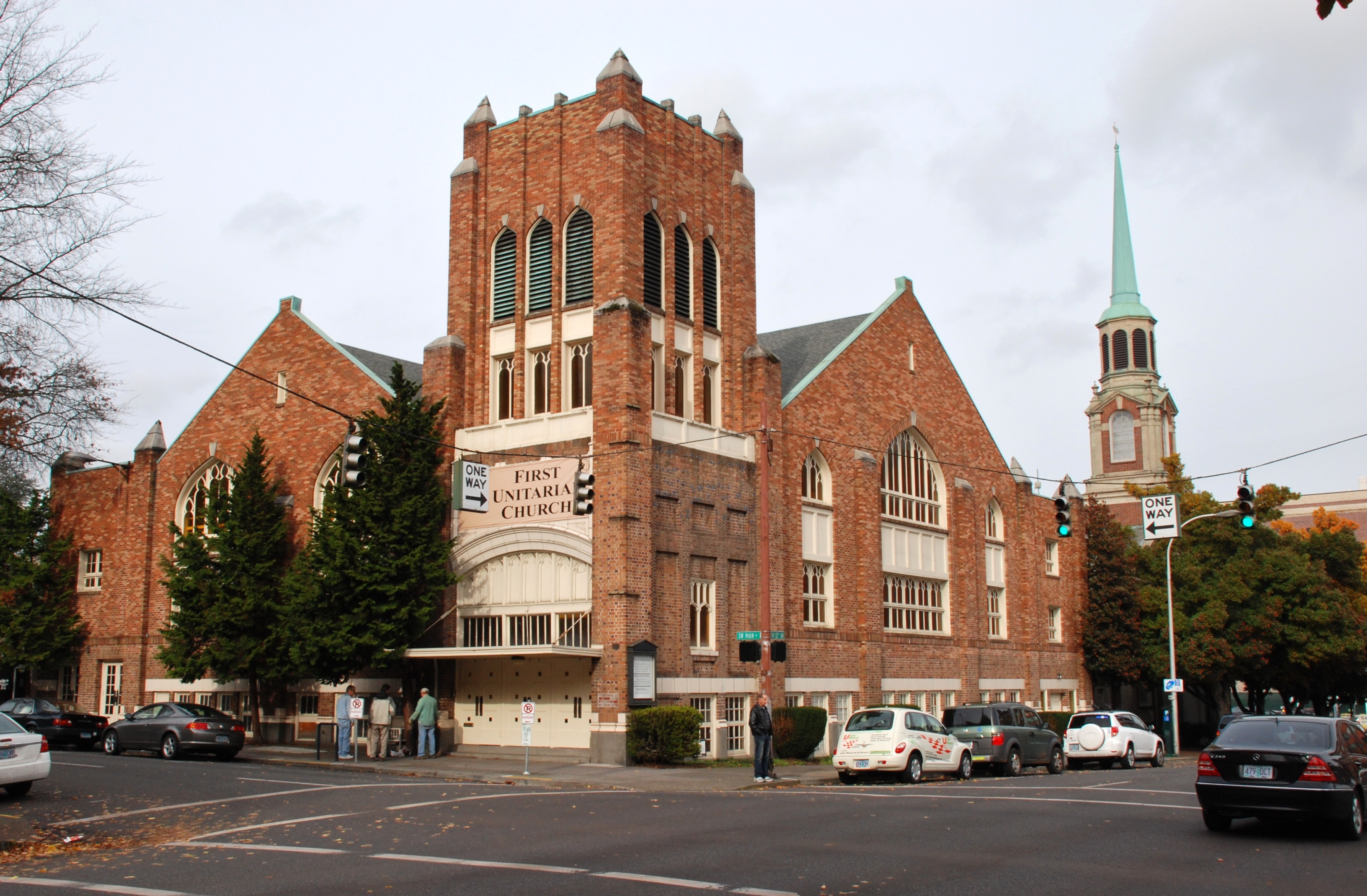 The former First Church of the Nazarene, in downtown Portland, Oregon, built in 1921. The building was sold in 1979 to the neighboring First Unitarian Church, who now use it as their main sanctuary for Sunday services. The Colonial-style building whose tower is visible in the background is the original First Unitarian Church of Portland, built in 1924 and listed on the National Register of Historic Places. It is still owned and used by the Unitarian Church.